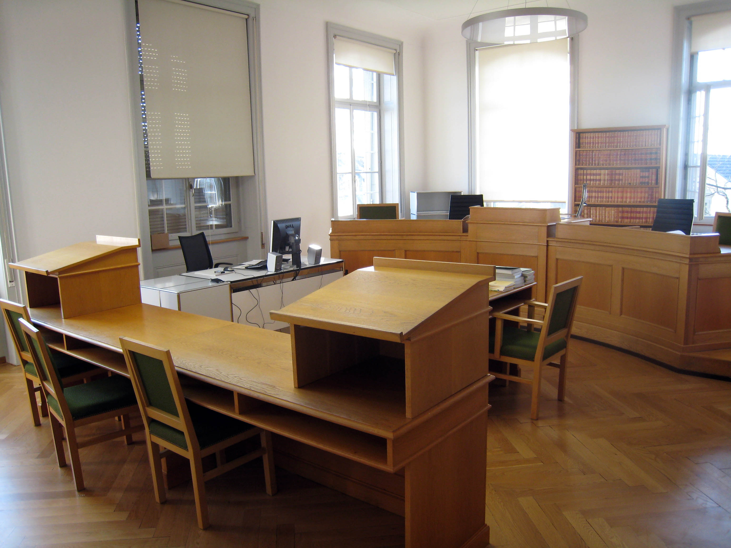 A small courtroom in the Supreme Court of the Canton of Berne, Switzerland. To the left, not shown, is the audience bench.